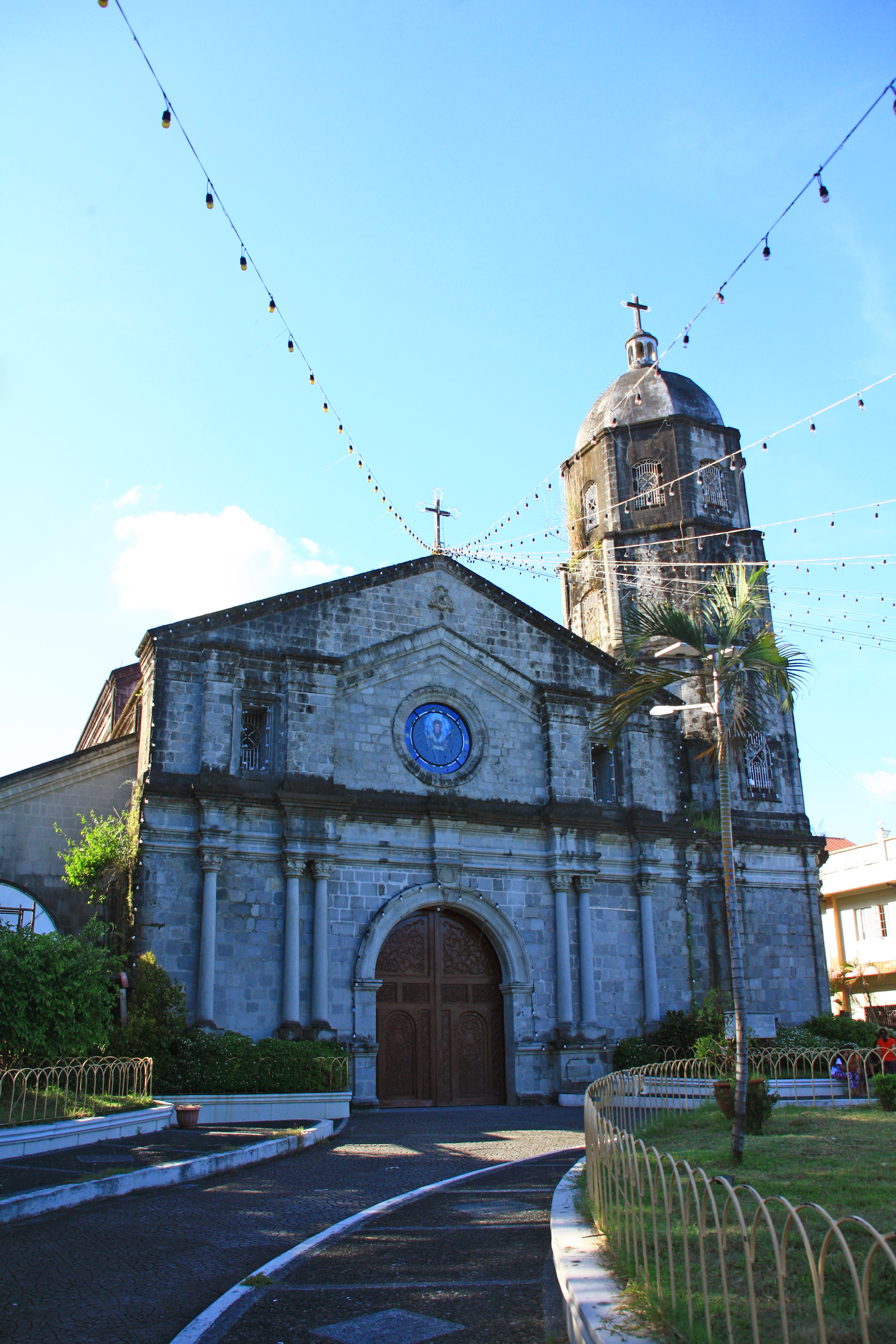 Facade of the Saint Catherine of Alexandria church in Porac, Pampanga